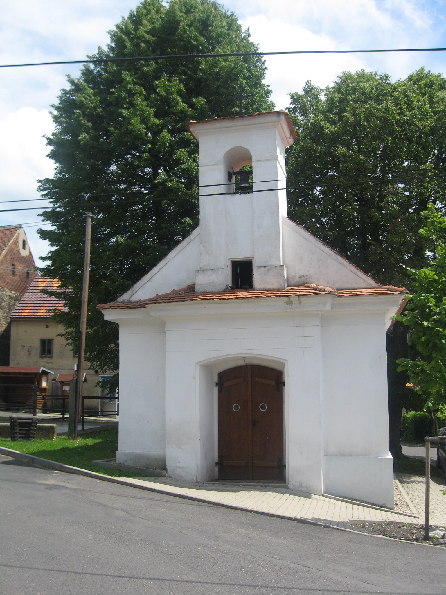 Chapel in Lukov (Teplice District)